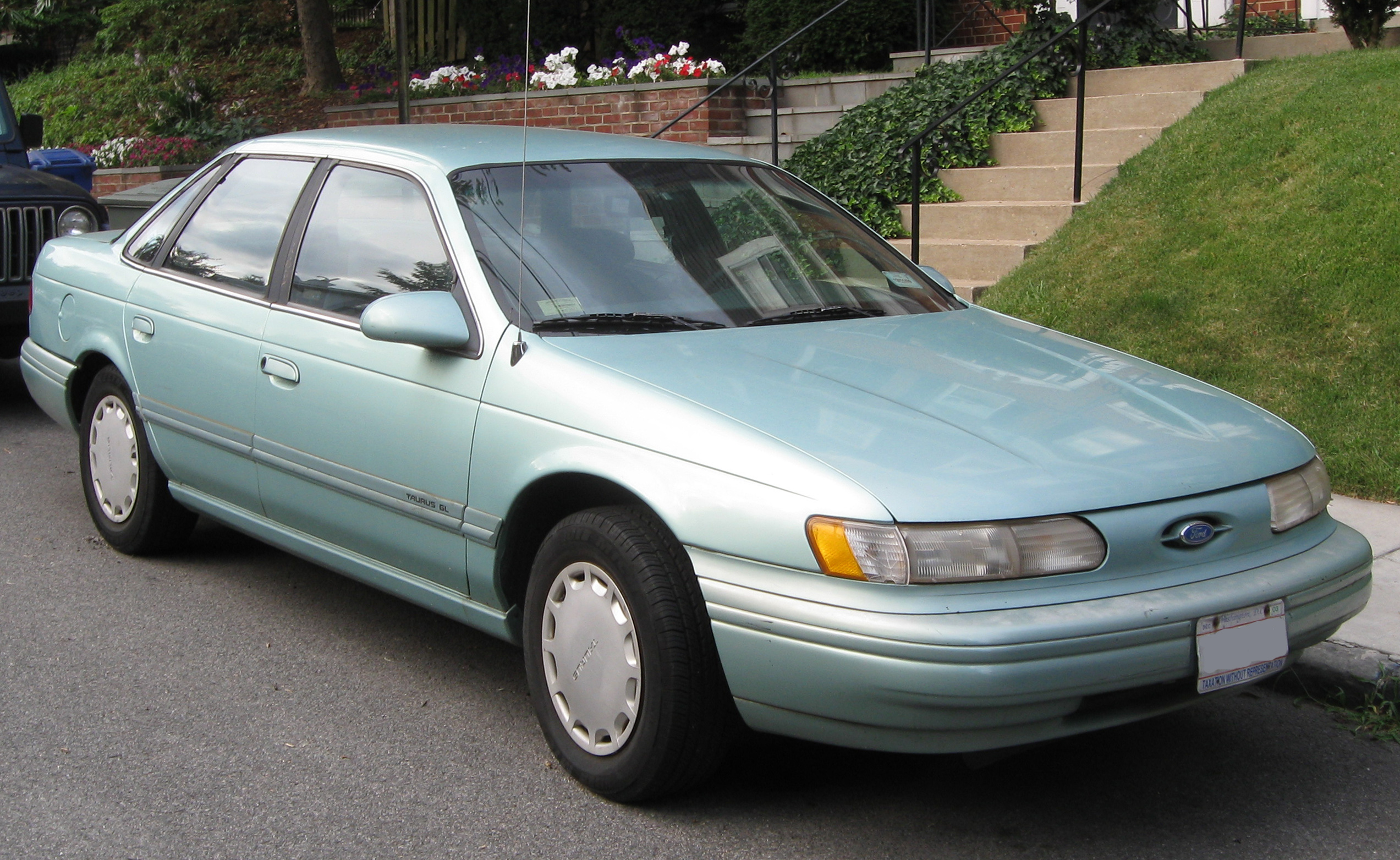 1994-1995 Ford Taurus GL sedan photographed in Washington, D.C., USA.